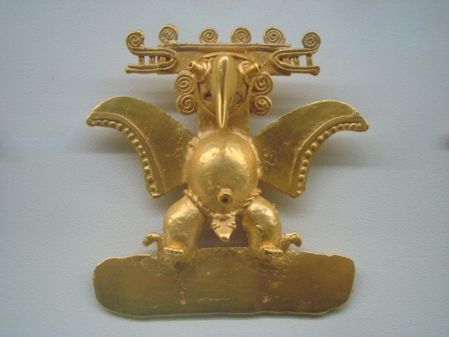 Bird-shaped pendant, representing a harpy eagle and a stylized alligator decoration on the head. Southern Pacific of Costa Rica. 700-1550 AD. Museum of Pre-Columbian Gold. San Jose, Costa Rica.